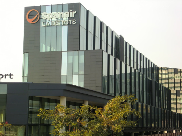 Spanair head office in l'Hospitalet de Llobregat, Catalonia. - Edifici Spanair. Plaça d'Europa 54-56, 08902 L'Hospitalet de Llobregat (Barcelona).